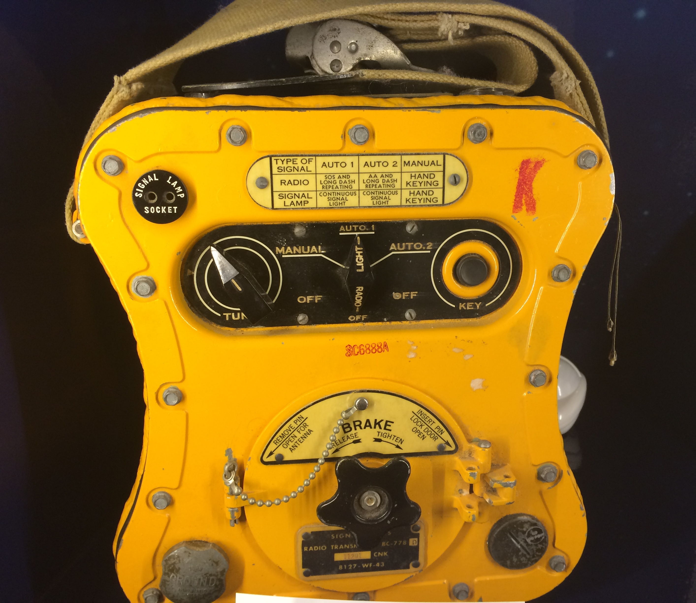 Gibsomn Girl wwii model Field radio, this one used at the Kon-Tiki raft expedition in the Pacific.